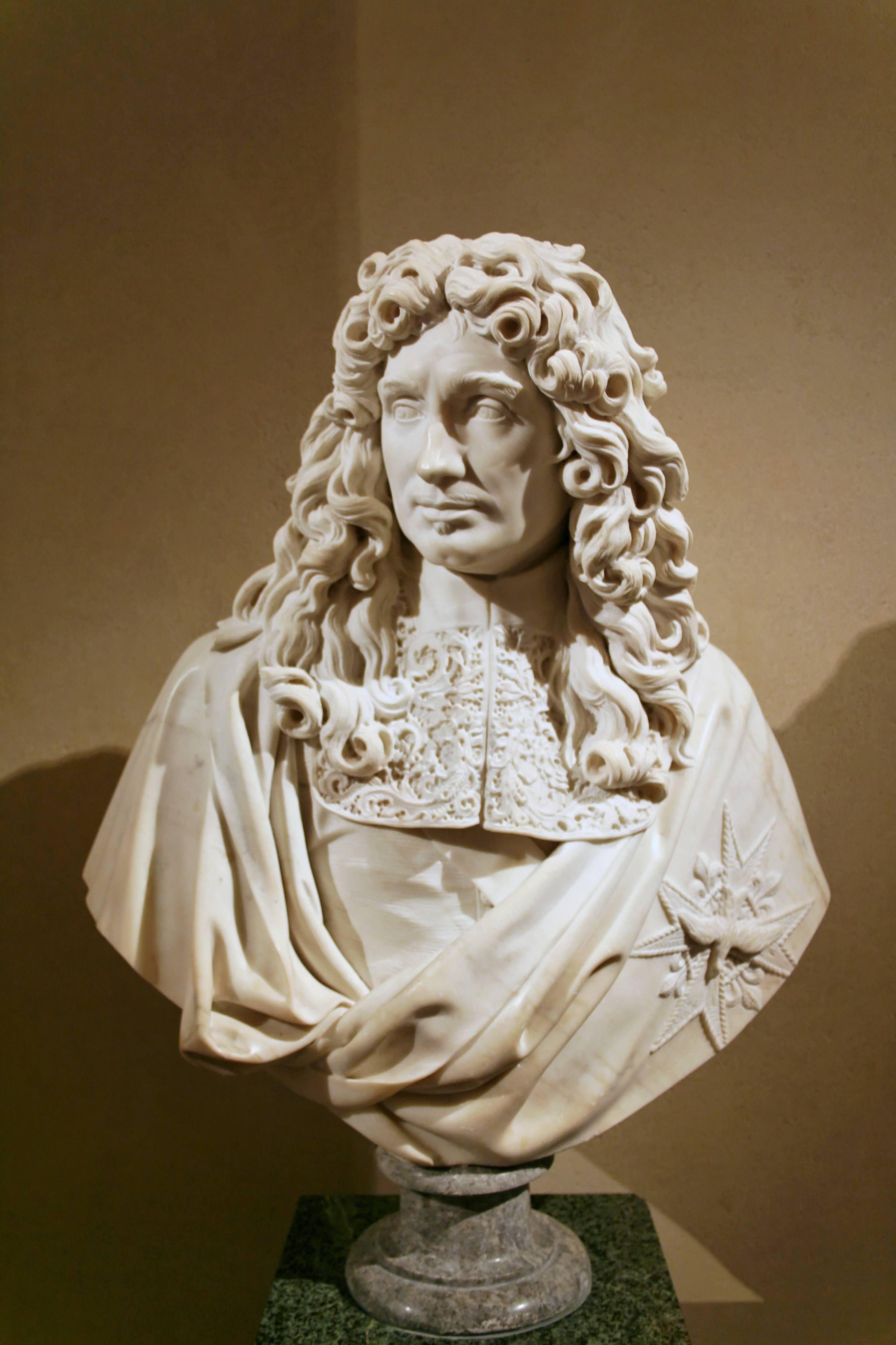 Portrait of Jean-Baptiste Colbert (1619-1683). Marble, replica of the bust commissionned by the Royal Academy of painting and sculpture for Colbert himself, then patron of the institution.